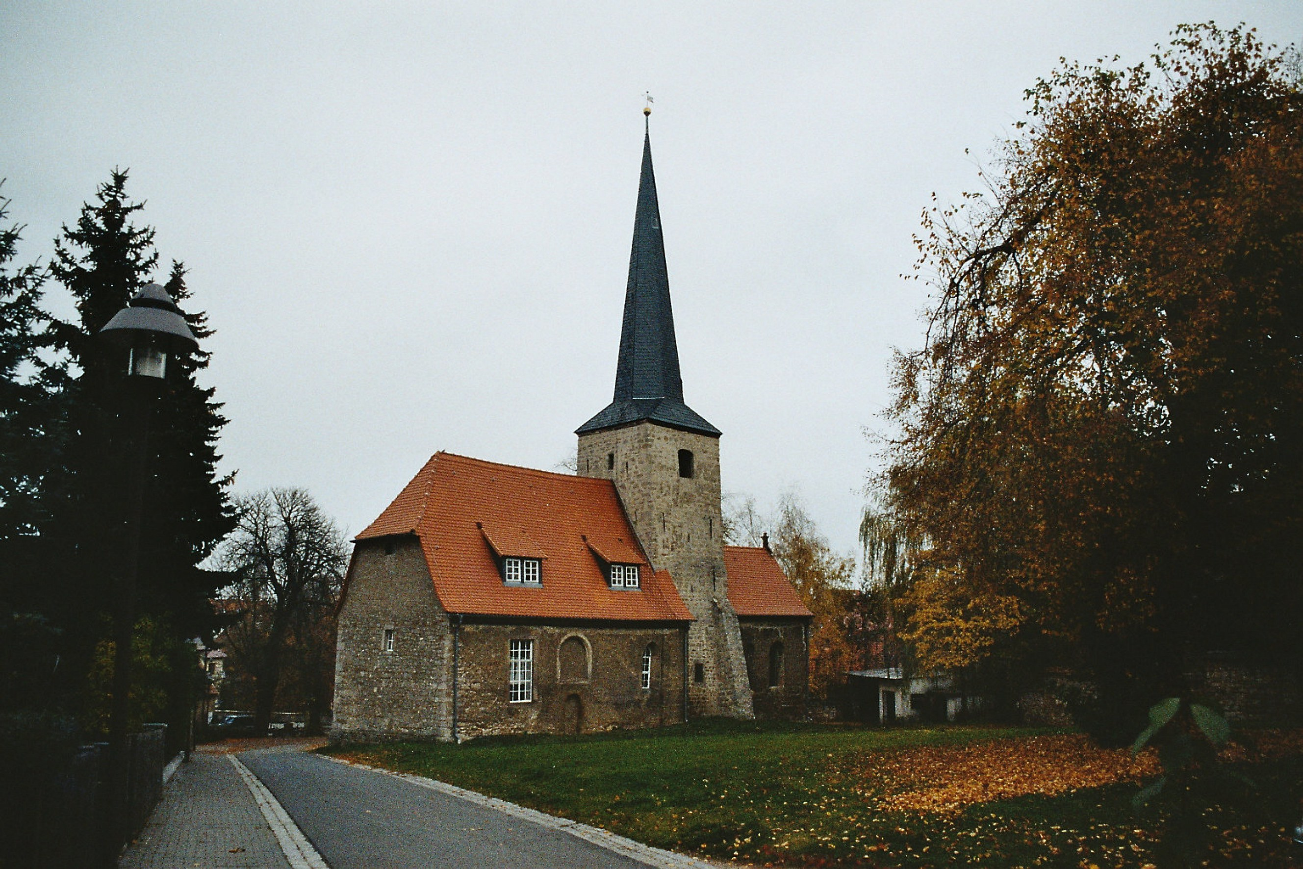 Umpferstedt, the village church